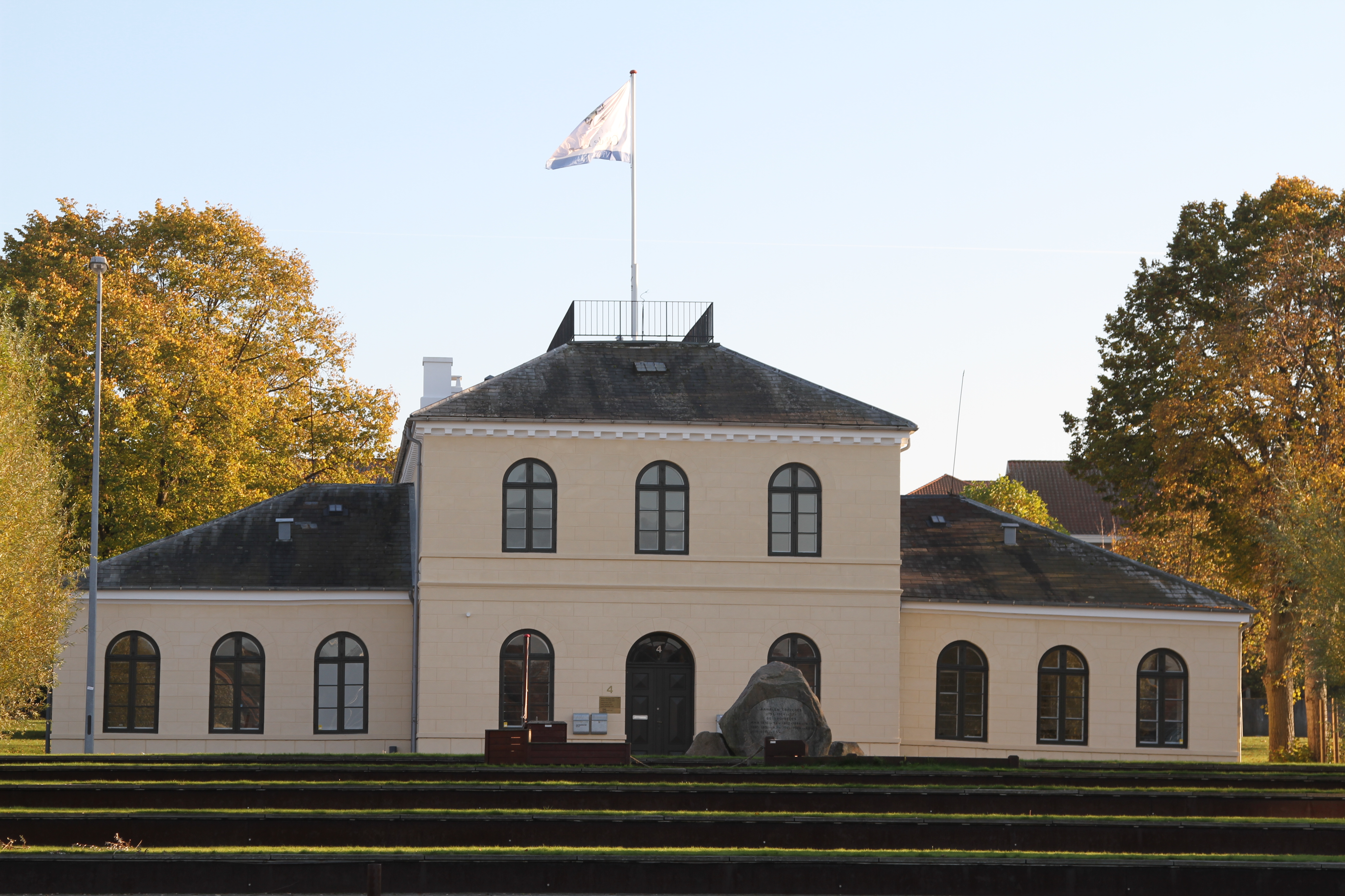 The (former) harbour custom house, Londongade 4 in Odense. Listed building